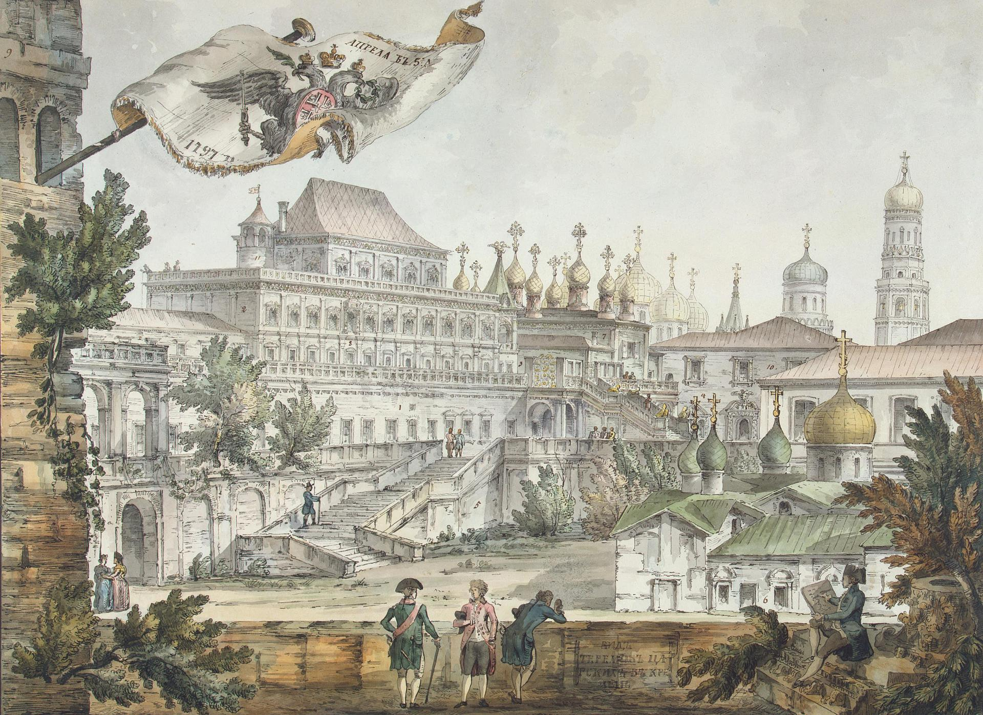 Giacomo Quarenghi. Terem Palace in Moscow. View from the Saviour Cathedral. 1797. Drawings, Pen, brush, Indian ink and watercolour, 43.2x57.7 cm. The Series Views of Moscow and its Environs. State Hermitage, Source of entry: acquired from K. Saunders, 1857